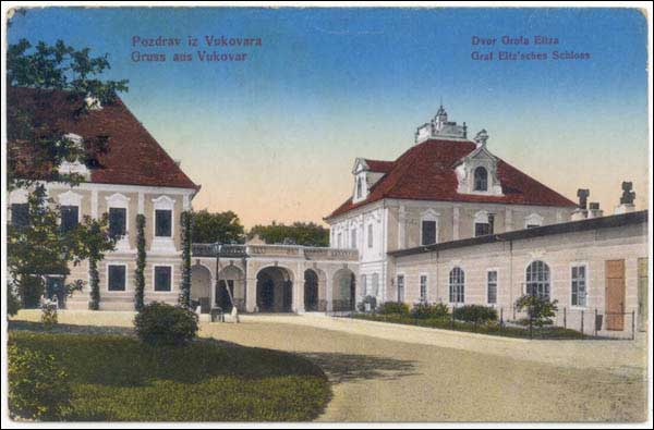 Old Vukovar, Court of count Eltz